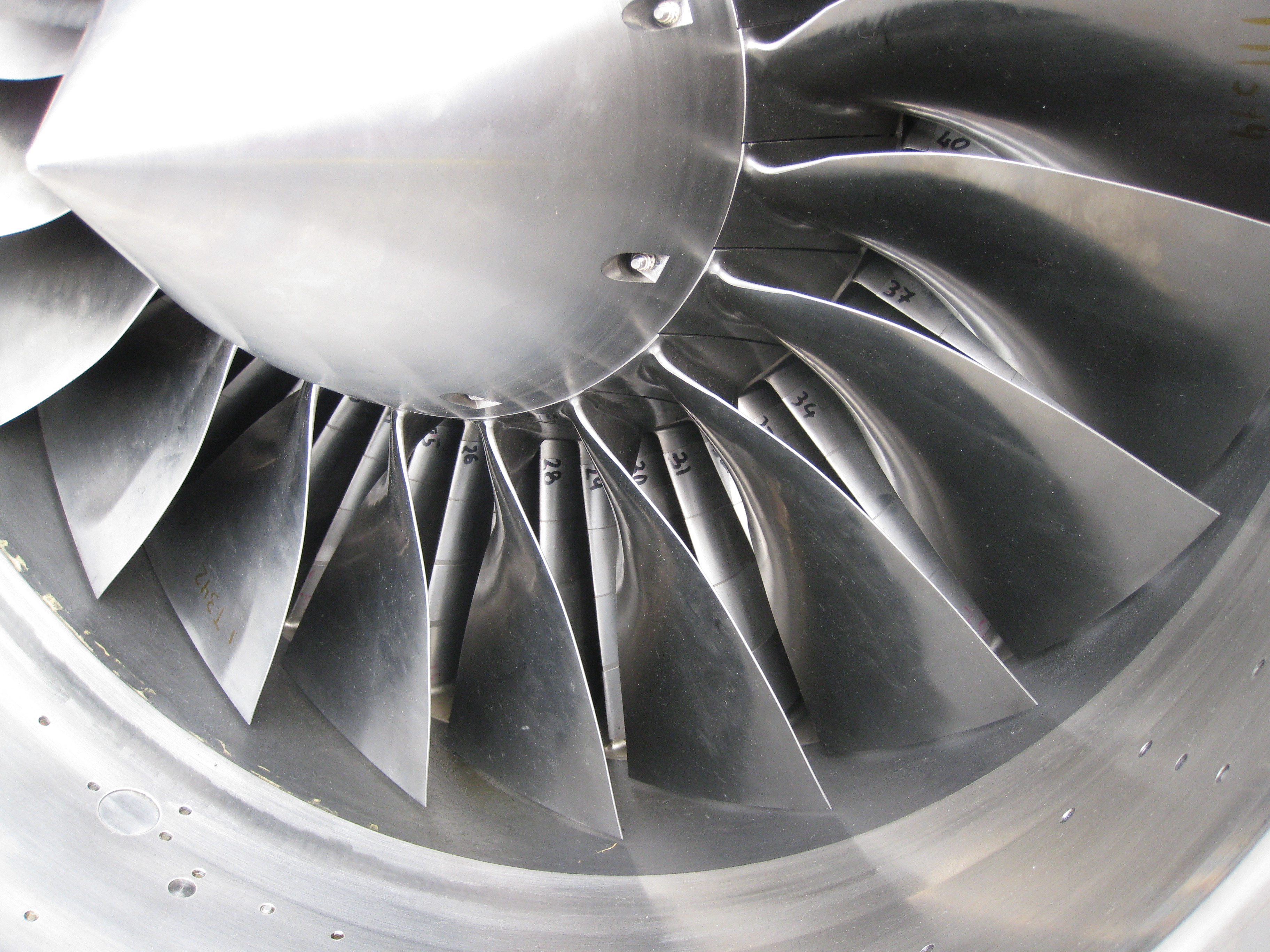 The inlet of an EJ200, showing fan and inlet guide vanes